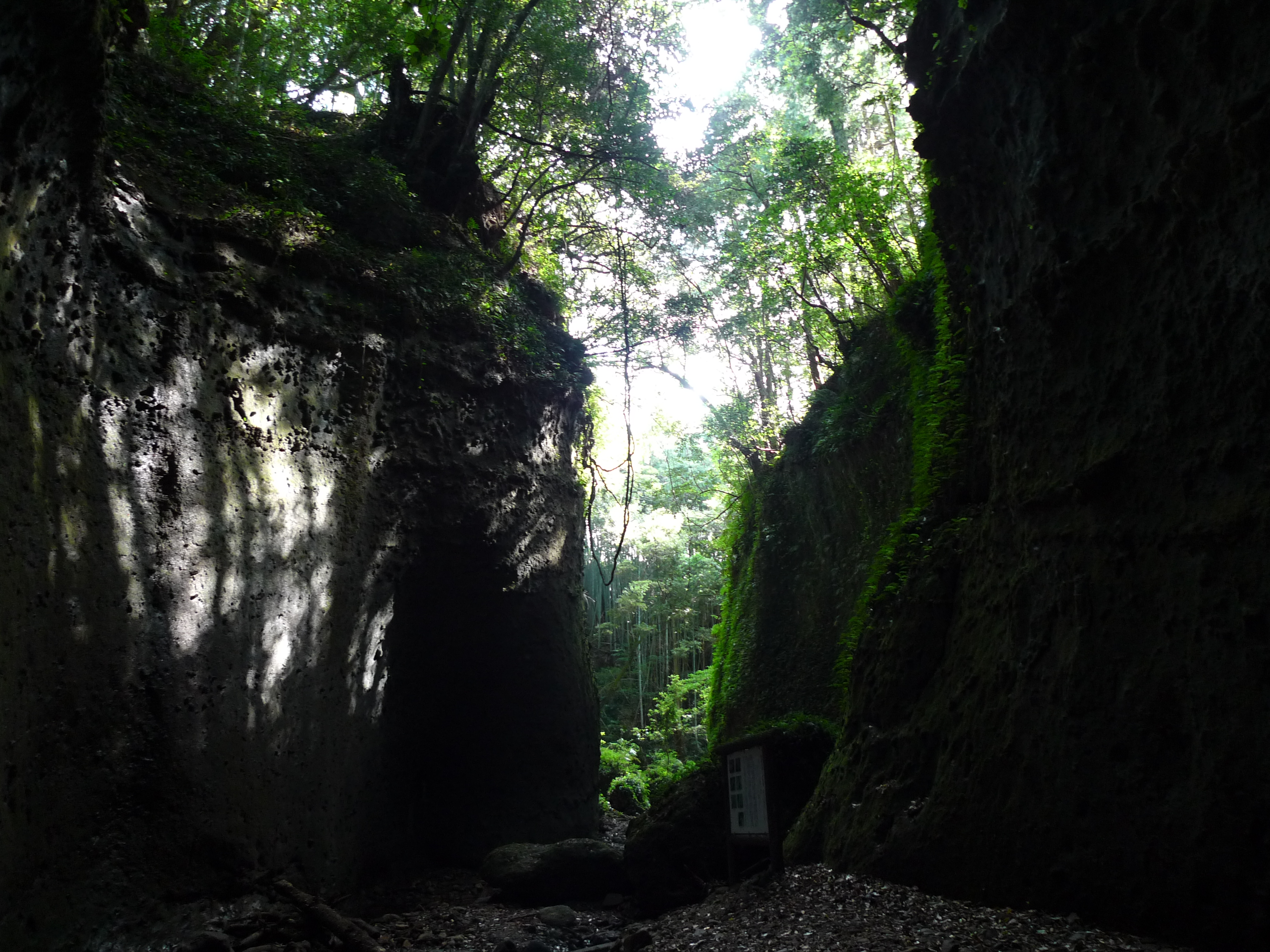 Iokido cave fern community, Aki city, Kochi pref, Japan.